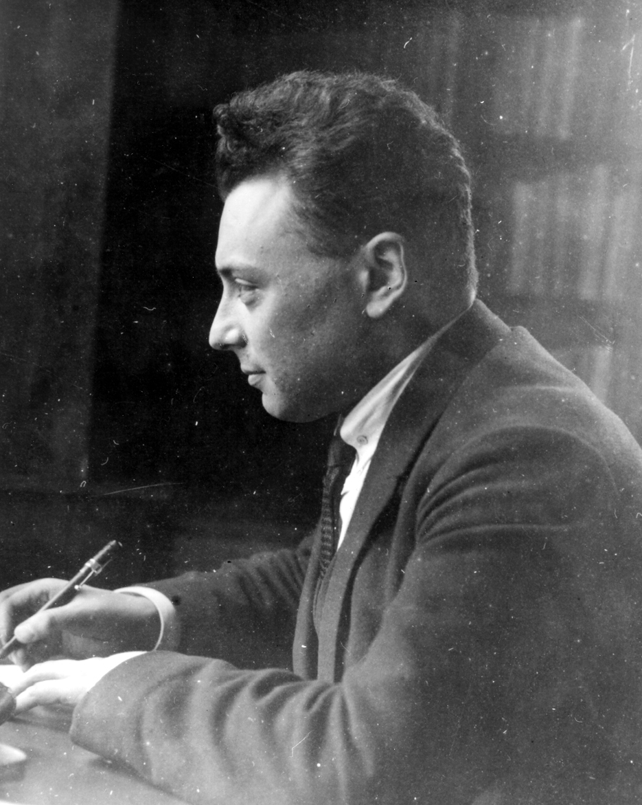 Wolfgang Pauli (1900–1958) – Austrian-Swiss theoretical physicist, one of the pioneers of quantum physics